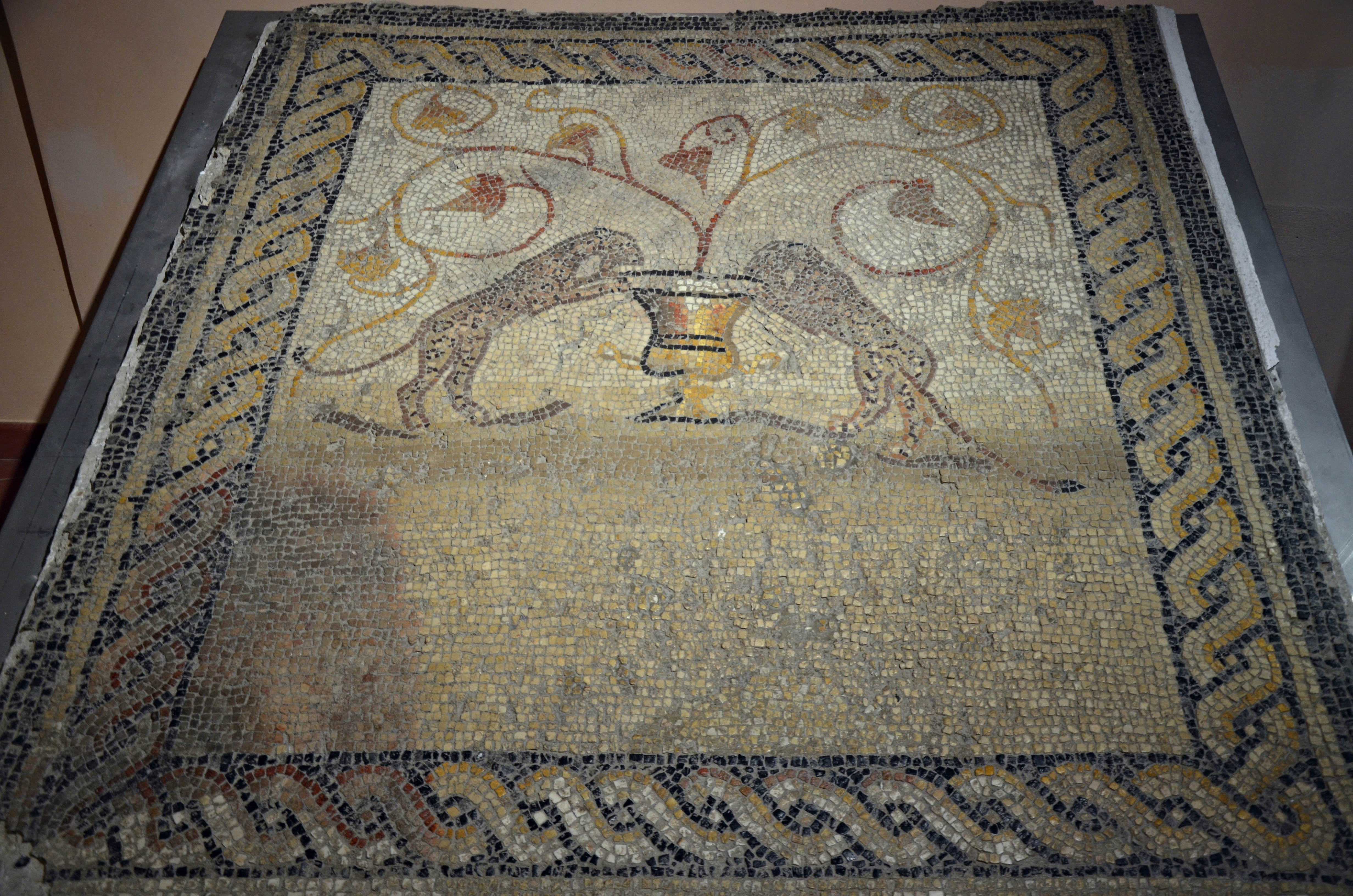 The krater, the panther and the vegetal decoration (probably vines) were part of the imagery typical of the cult of Bacchus (the Greek Dionysus).